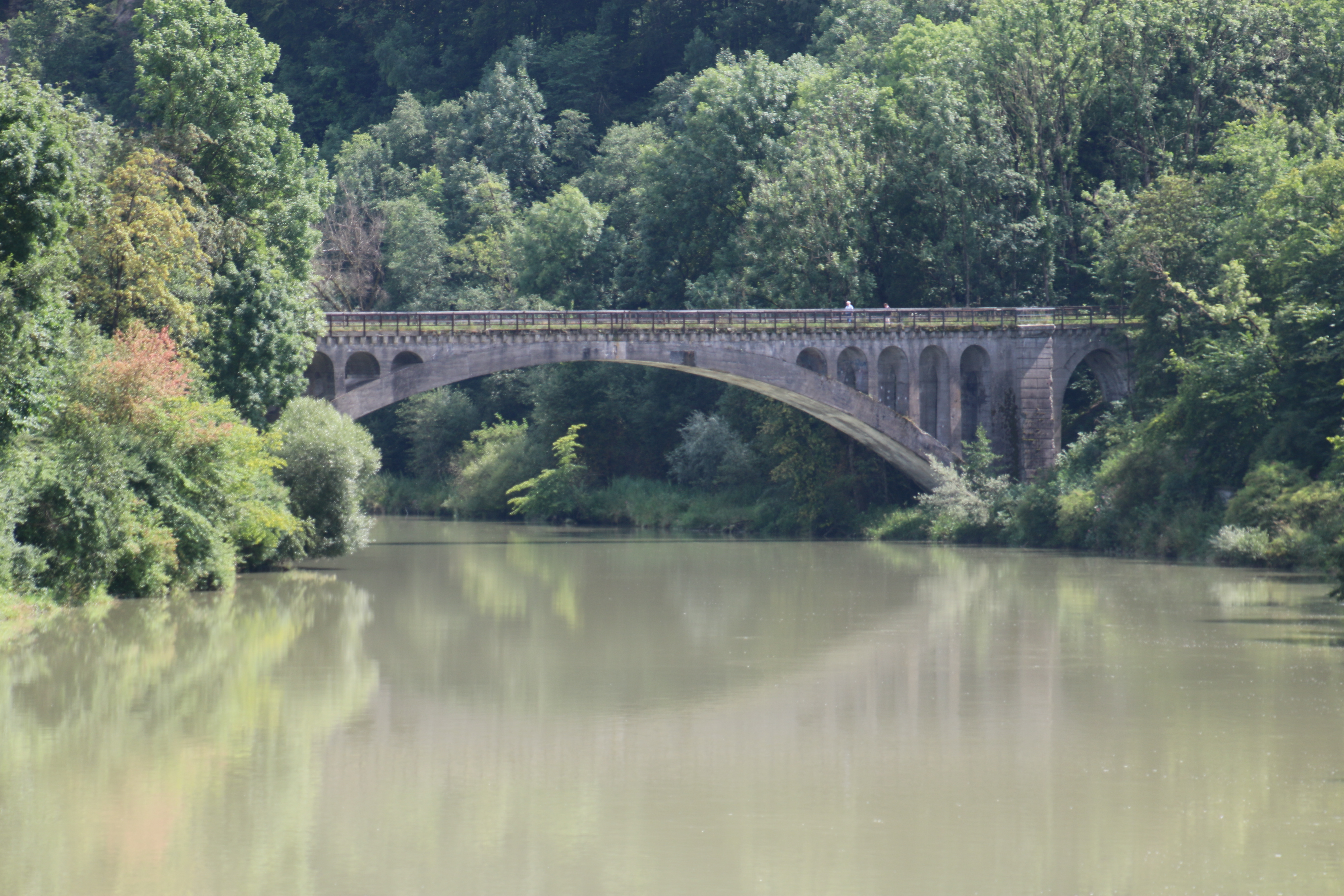 old railway bridge crossing the river Iller at Lautrach